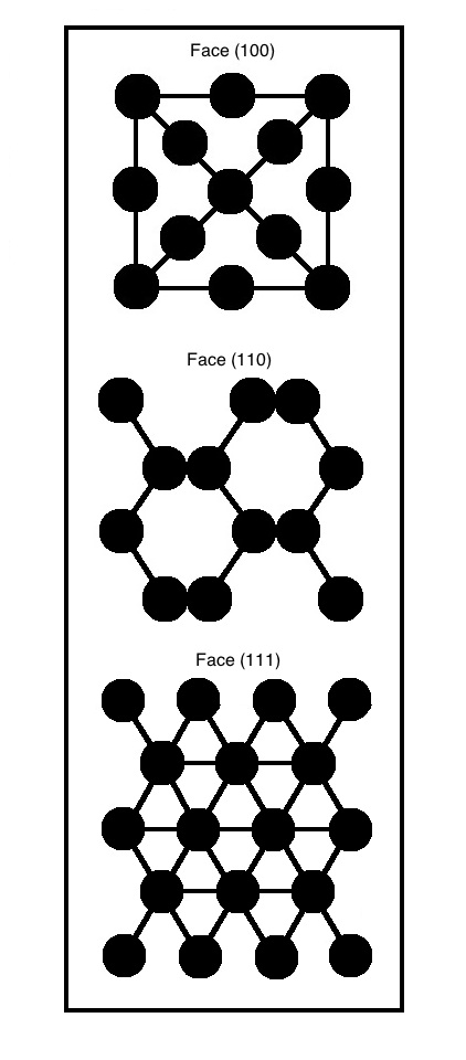 crystalline faces of diamond cubic structure